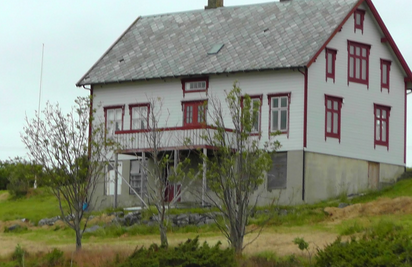 Hovedhuset Her fikk sjøfolkene mat og pleie etter den strabasiøse roturen fra trøndelagskysten. De lå på loftet innenfor det øverste lille vinduet. Et par av karene var hardt skadet og klarte knapt å gå. Leif Larsen hadde også skuddsplinter i låret. Her lå de i fire døgn før transport til Synes og siden Skorpa ble ordnet. I sommerfjøset i Skorpasundet ble de etterhvert hentet av en MTB og ført til basen i Scalloway, Shetland